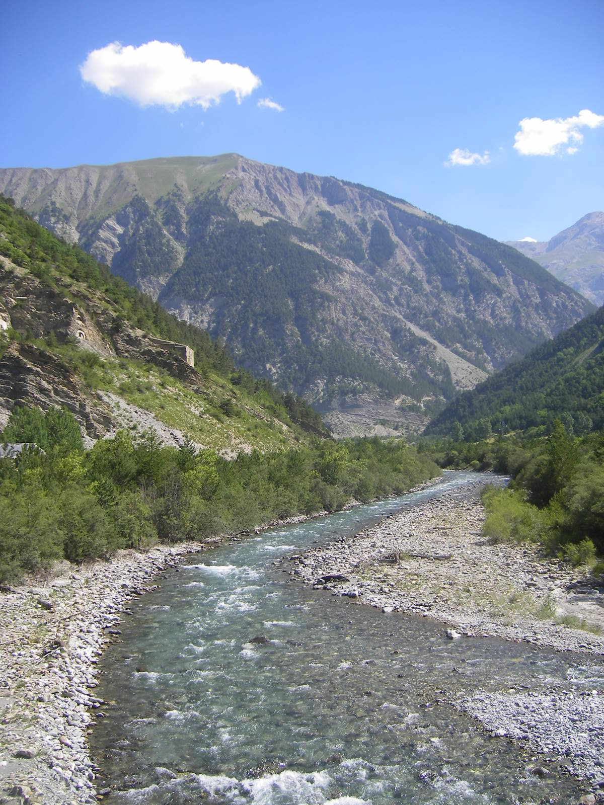 The Ubaye river between La Condamine and Fort Tournoux